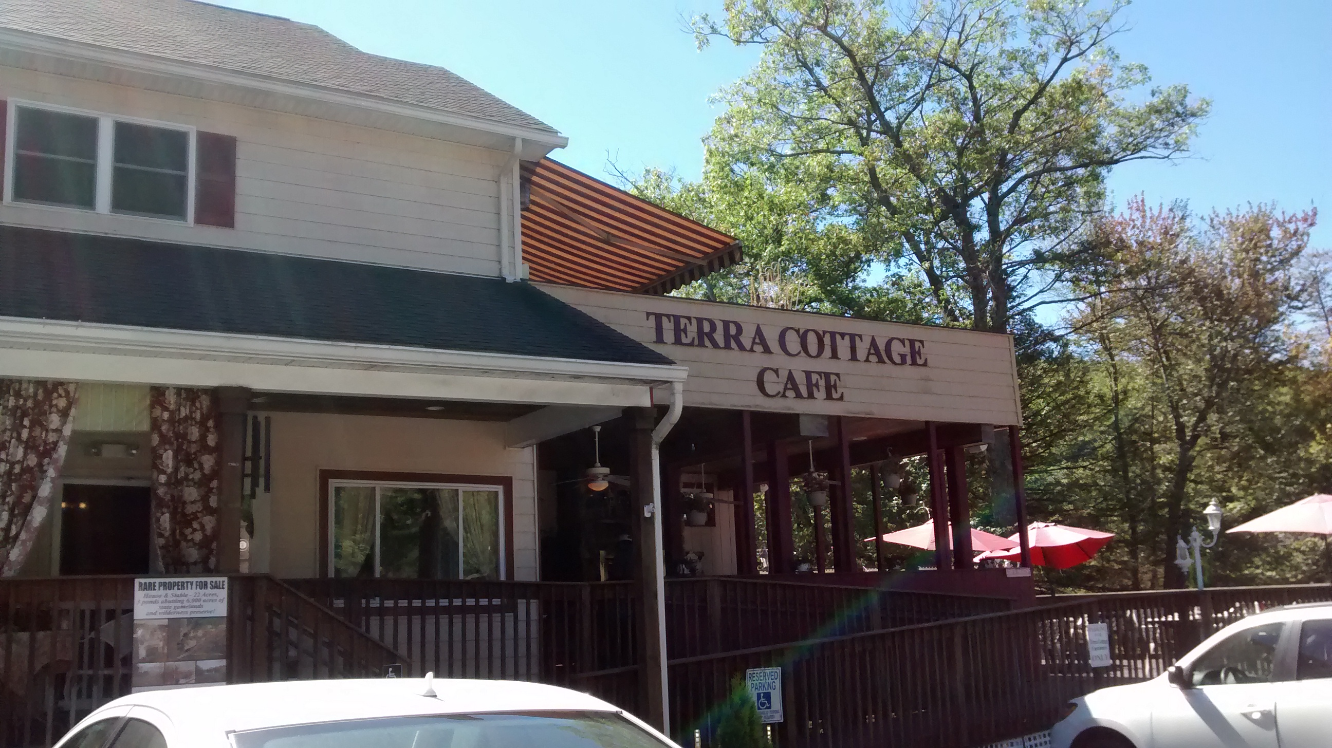 The Terra Cottage Cafe in Lake Harmony, PA